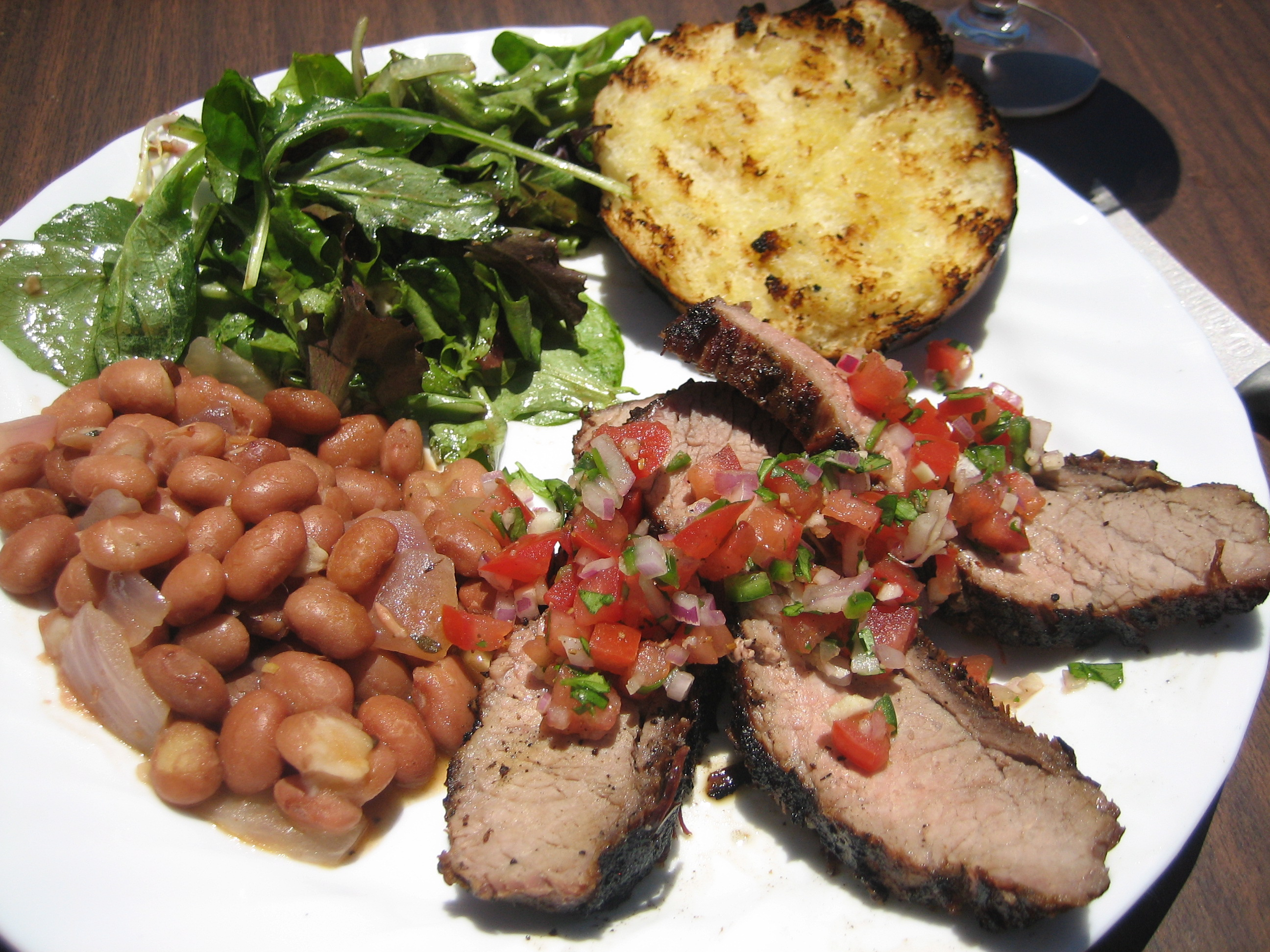 Santa Maria-style barbecue: Tri-tip with salsa, pink beans (can't get pinquitos outside of Santa Maria), salad, and garlic bread. Would have been nice if the meat were rarer, but it was still delicious.